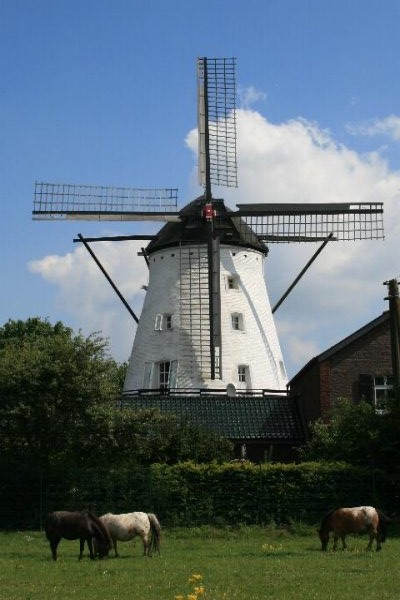 Cultural heritage monument No. 34 in Nettetal